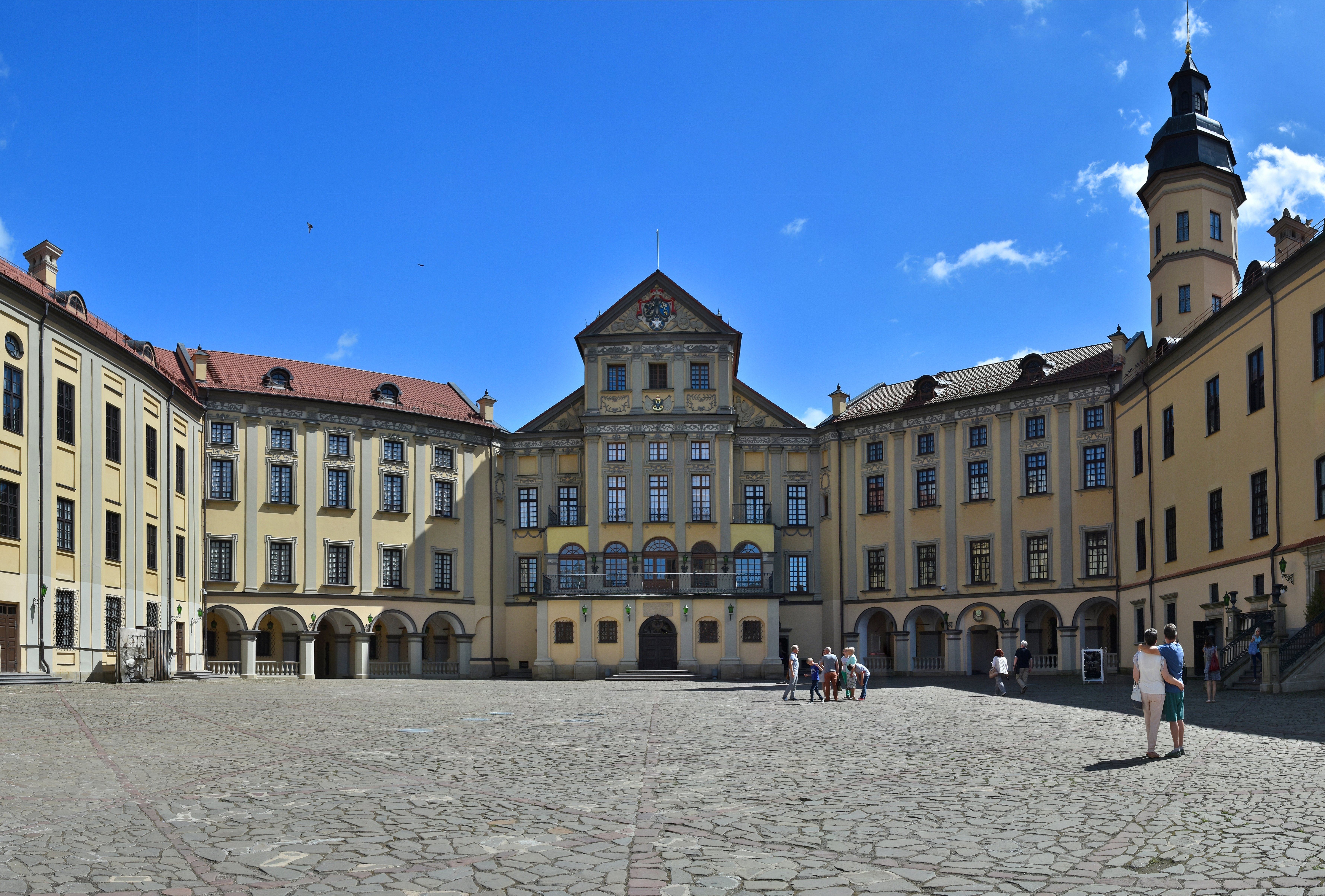 Inner court of Nyasvizh Castle, Belarus